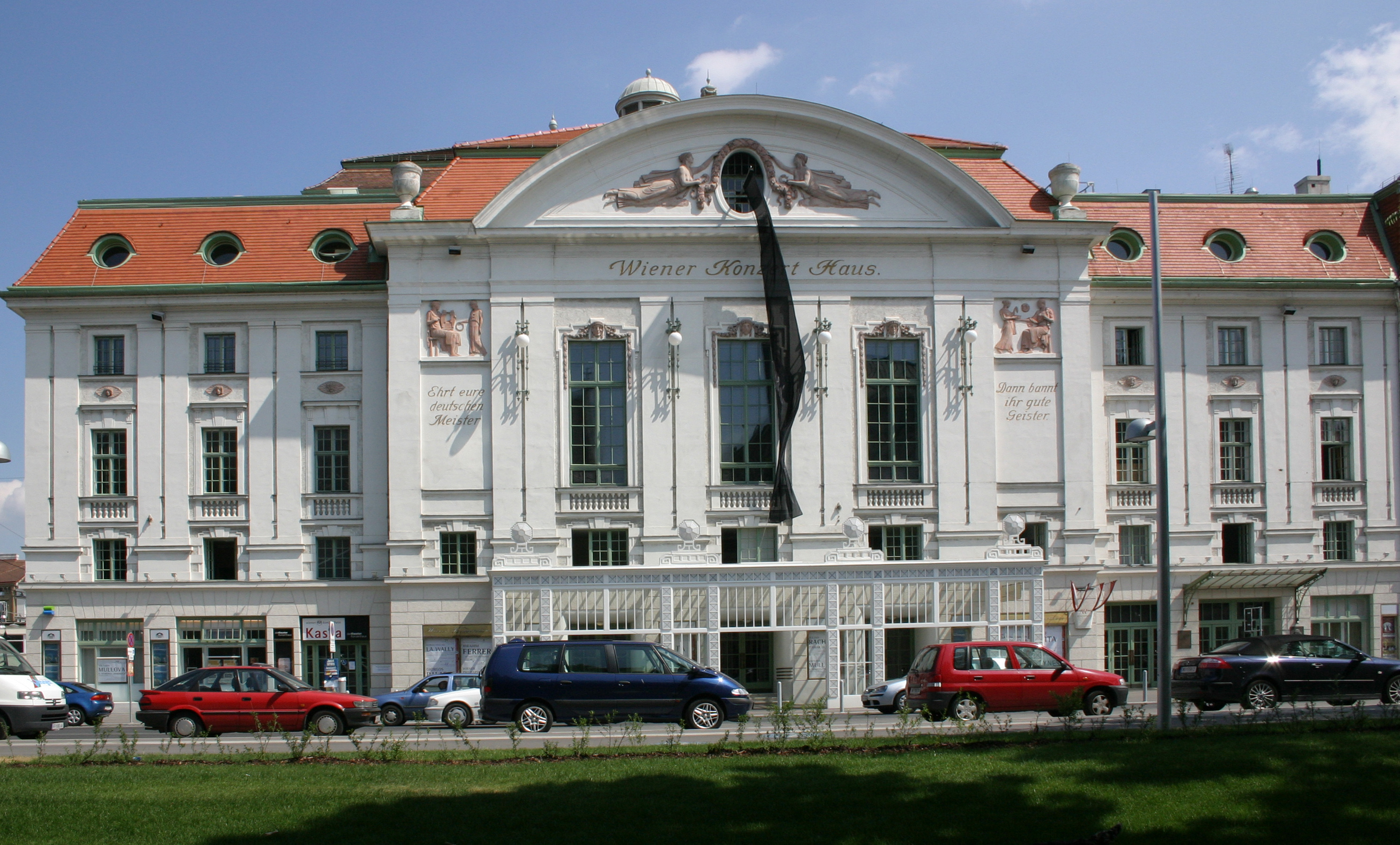 Konzerthaus in Vienna